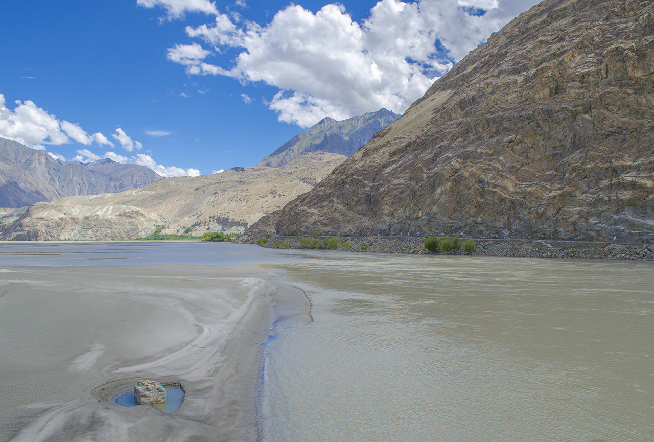 Shyok River, Khaplu, Ghanche District, Gilgit Baltistan aka Northern Areas of Pakistan.